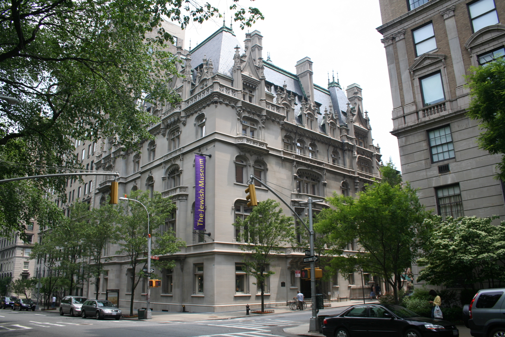 Photograph of the Jewish Museum in New York City, United States of America